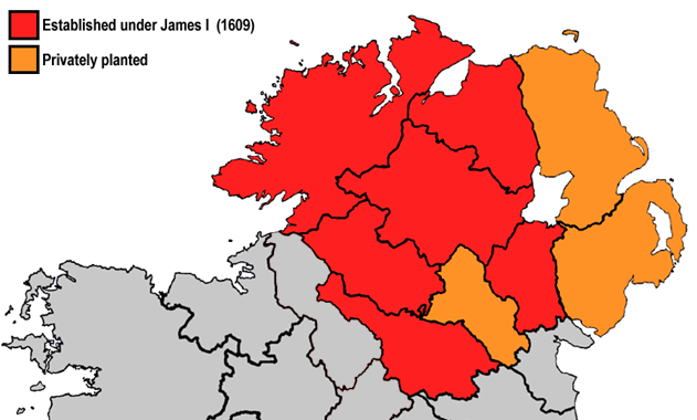 A map highlighting the areas subjected to British plantations in Ulster, using modern county boundaries.